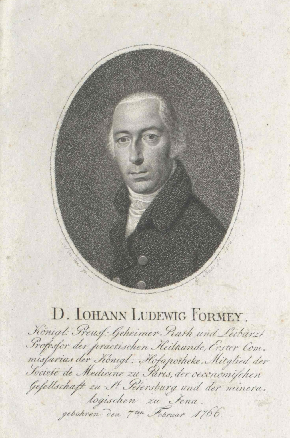 Johann Ludwig Formey (1766–1823)